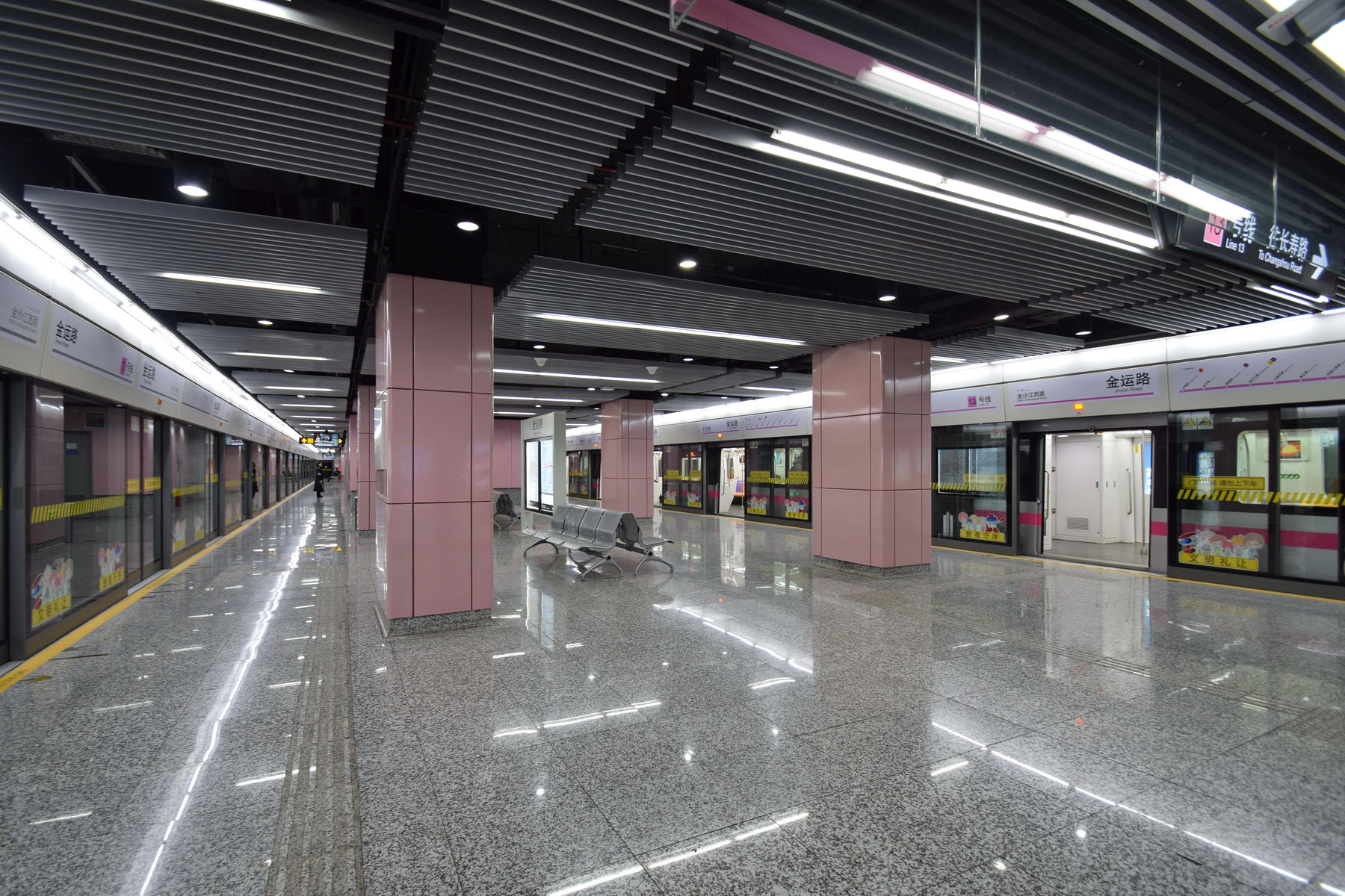 Line 13 Platform of Jinyun Road Station, Shanghai Metro